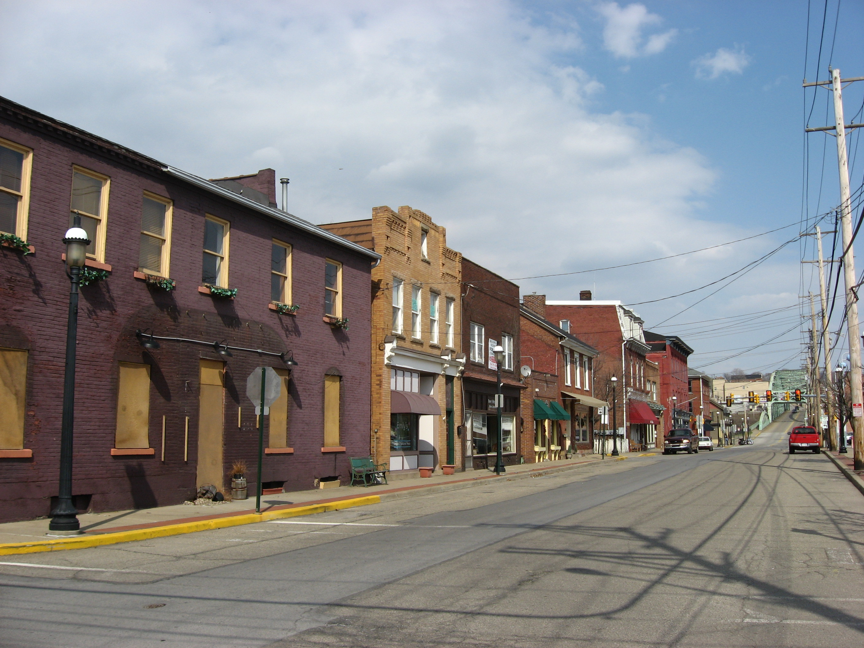 Buildings along the north side of Bridge Street in Bridgewater, Pennsylvania, United States, taken from the southwestern corner of the Mulberry Street intersection. This block is part of the Bridgewater Historic District, which is listed on the National Register of Historic Places.